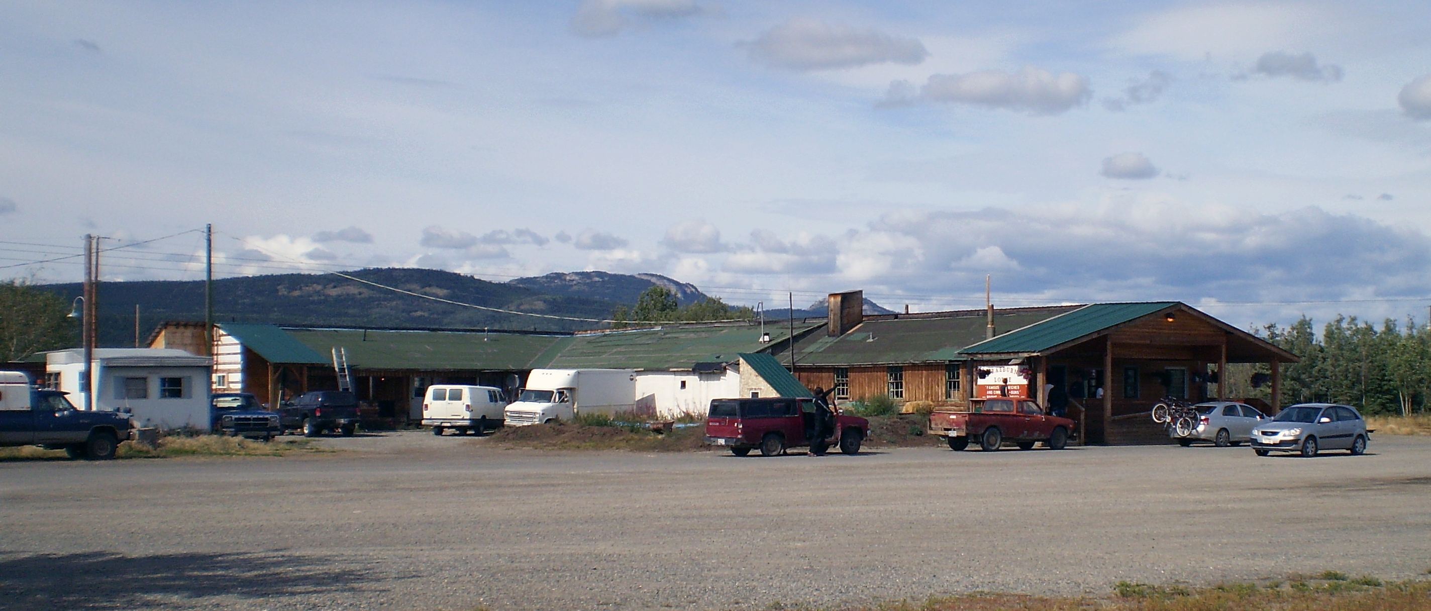 Braeburn Lodge, Yukon Territory, seen in August 2009.